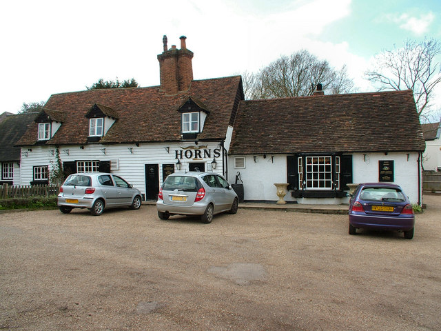 The Horns Public House A nice Village Pub & Restaurant in Bull's Green